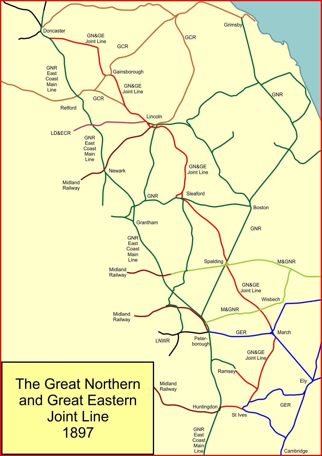 System map of the GN and GE Joint Railway Line, England, in 1897